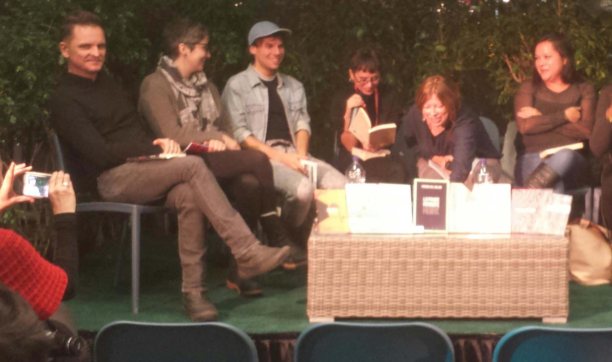 Olivia Tapiero, Robyn Maynard, Laurance Ouellet Tremblay, Naomi Fontaine, Kevin Lambert & David Bouchet photographed photographed in Montréal , Québec, Canada at the Salon du livre de Montréal 2018.